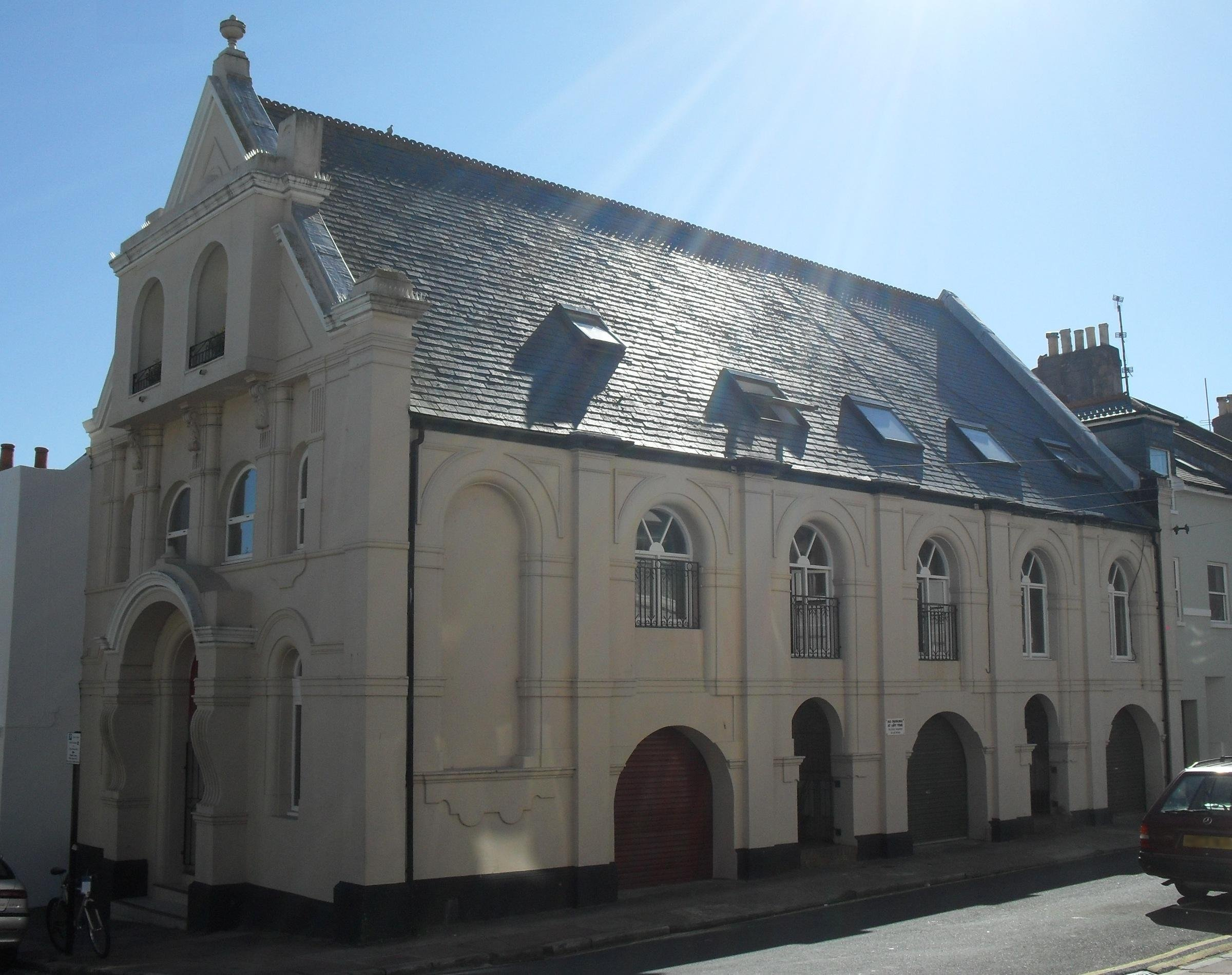 Former Congregational Chapel (later the Playhouse theatre and cinema), Sudeley Place, Kemptown, Brighton, East Sussex, England.